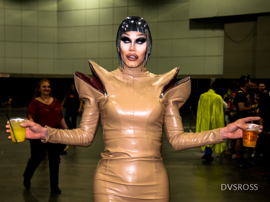 Sharon Needles at RuPaul's DragCon LA 2018